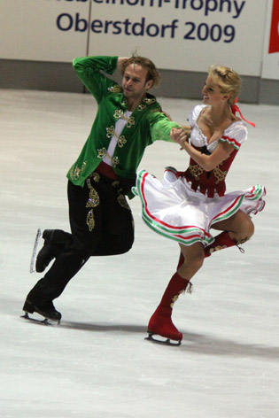 Nora HOFFMANN & Maxim ZAVOZIN (HUN) at the 2009 Nebelhorn Trophy. OD - folk